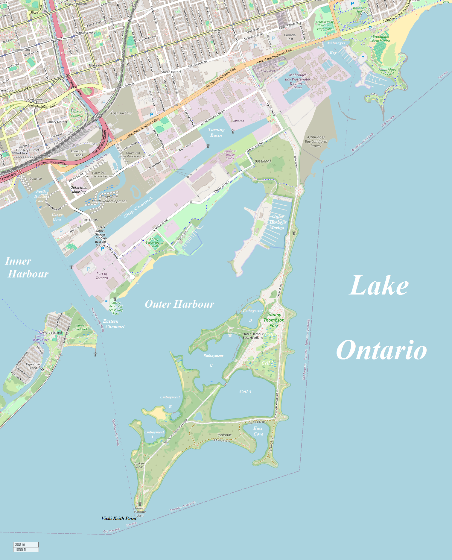 A map of Toronto's Outer Harbour East Headland, more commonly known as the Leslie Street Spit